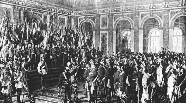 proclamation of Wilhelm I 1871